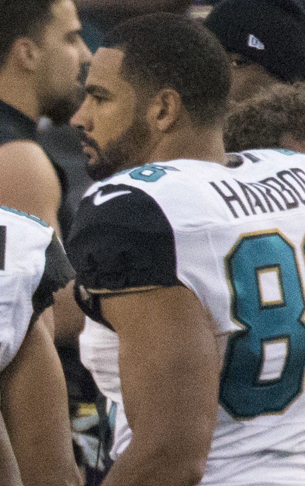 Jaguars at Ravens 12/14/14